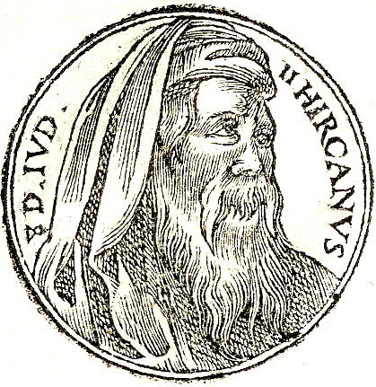 Hyrcanus II, a member of the Hasmonean dynasty, was the Jewish High Priest and King of Judea in the 1st century BCE.